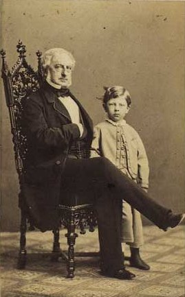 Danish diplomat, foreign minister, landowner, count Wulff Heinrich Bernhard Scheel-Plessen (alternatively: Scheel von Plessen) (1809-1876)